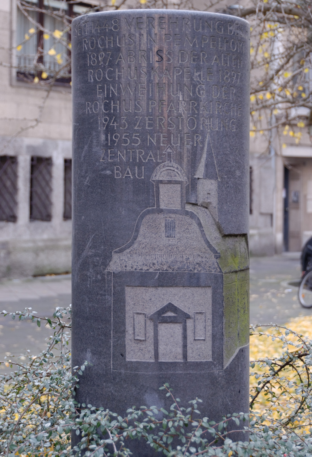 Memorial column for the Rochuskapelle in Düsseldorf-Pempelfort, Germany